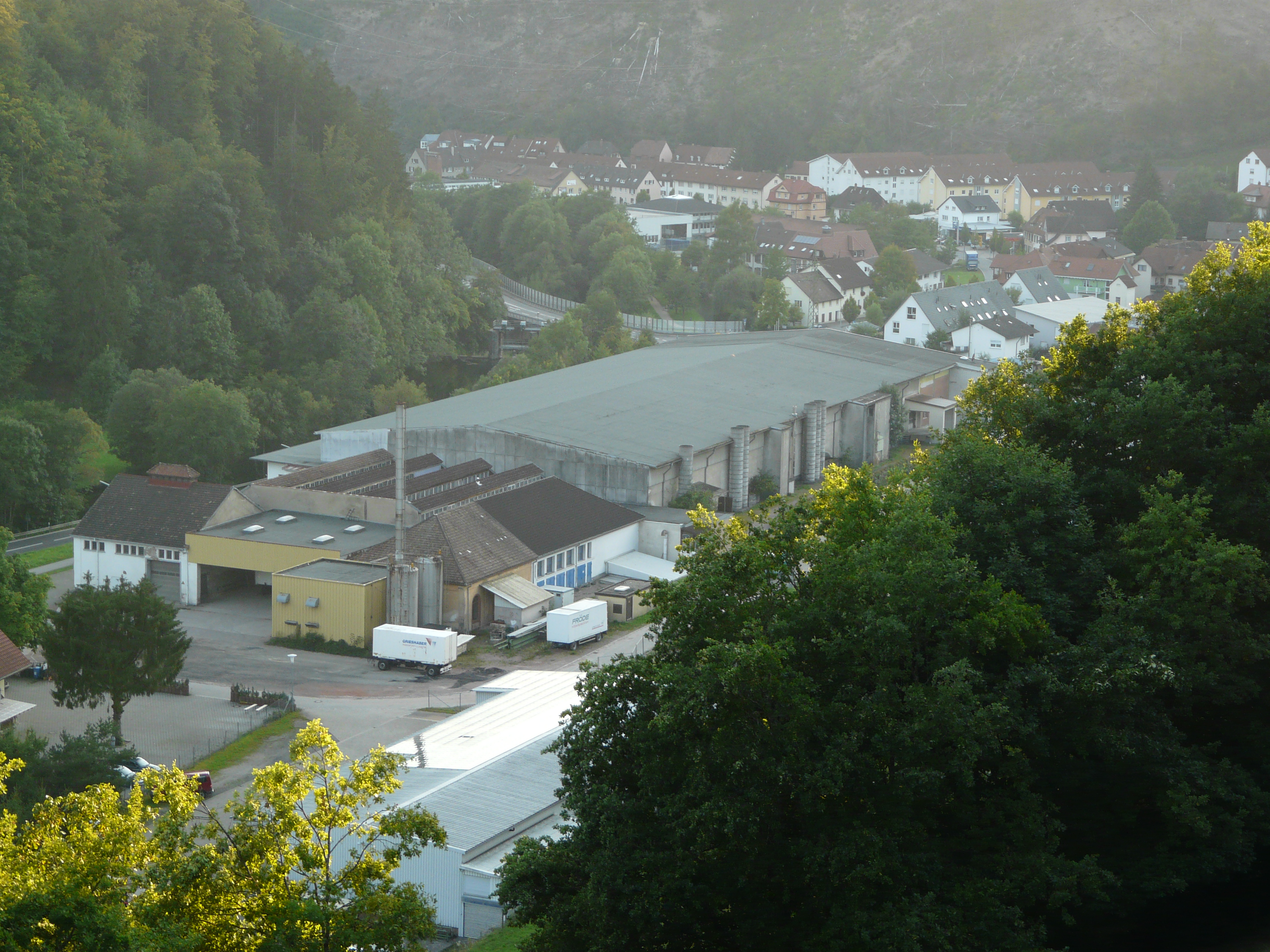 former Spinning factory in Atzenbach (Zell im Wiesental)